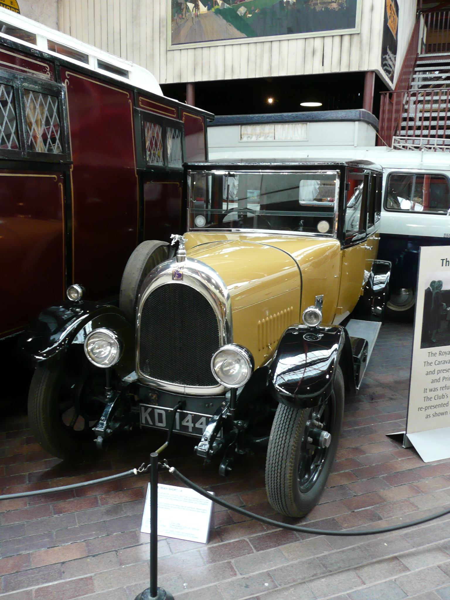 1928 Bean Short 14 in the National Motor Museum in Beaulieu